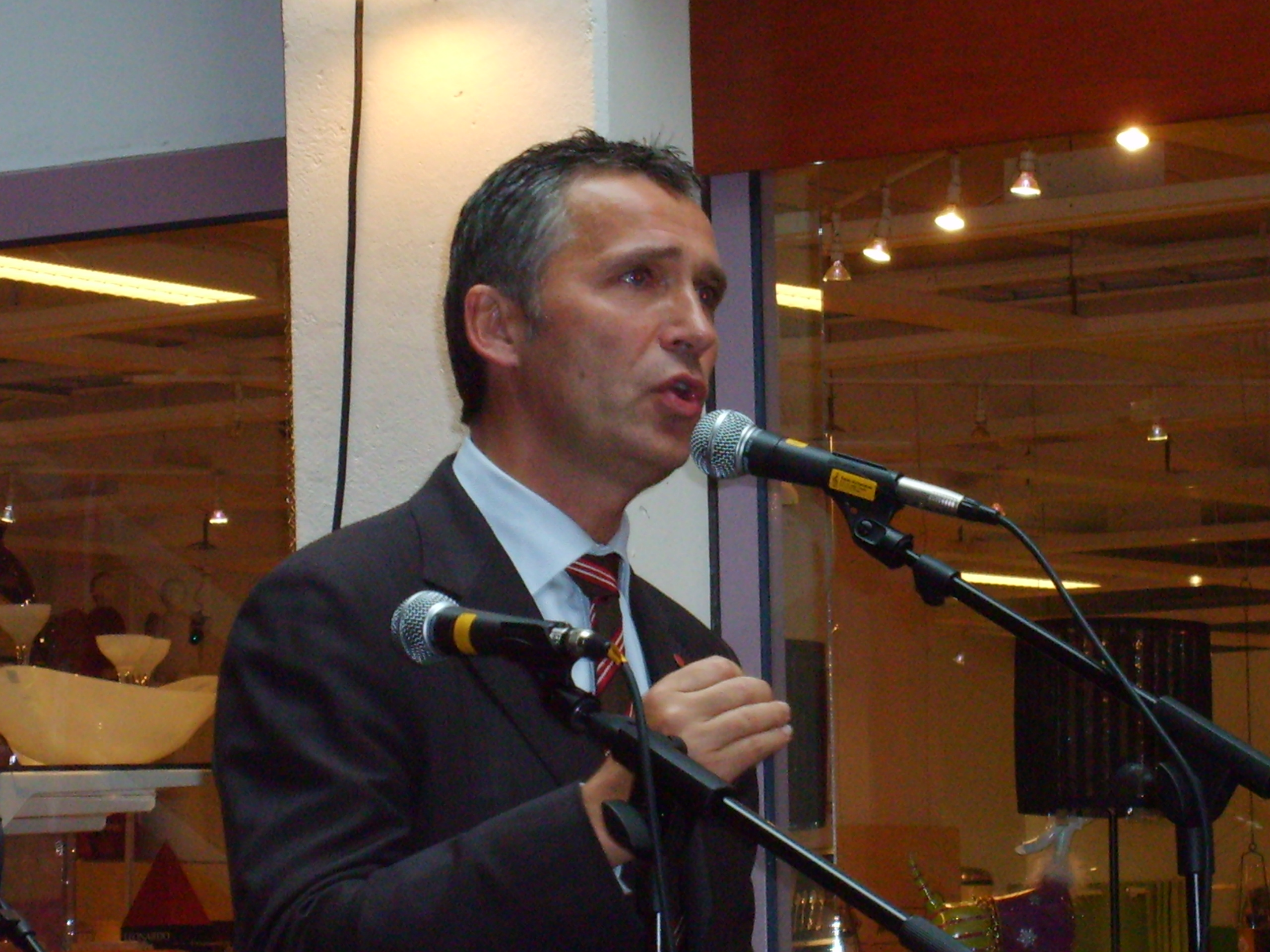 Jens Stoltenberg, Prime Minister of Norway.